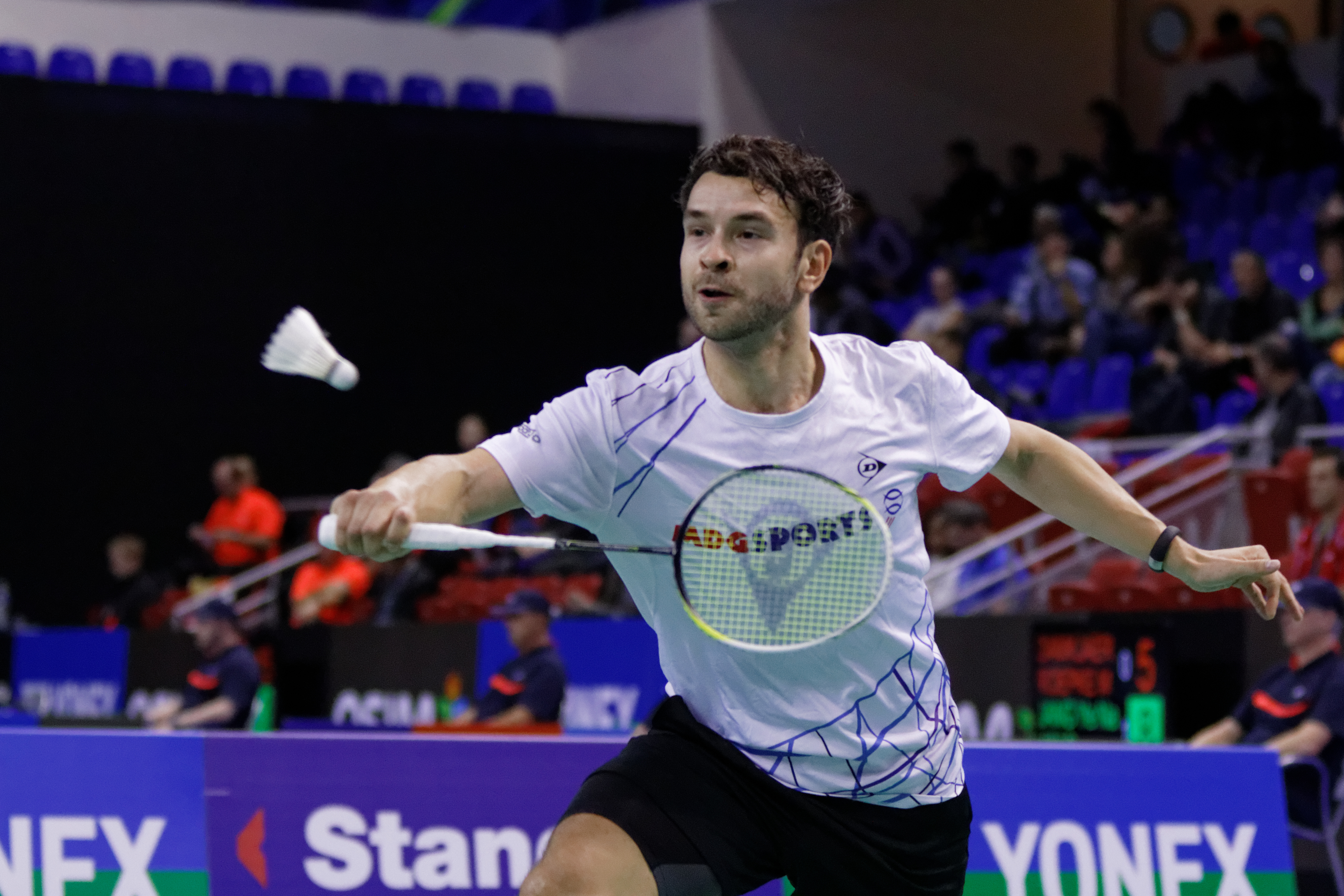 2013 French open. Mixed's doubles eightfinal. Chan Peng Soon and Goh Liu Ying vs Chris Langridge and Heather Olver.